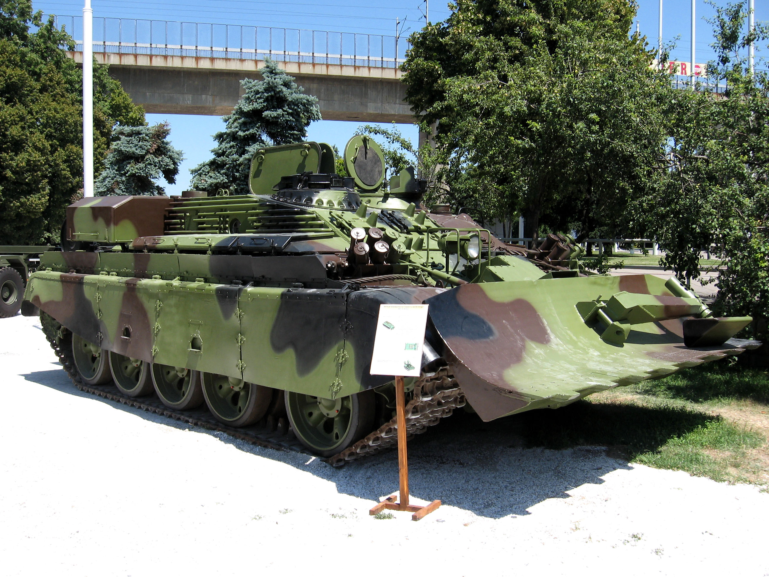 VIU-55 Munja (Serbian: Lightning) is a combat engineering vehicle produced by Serbia.